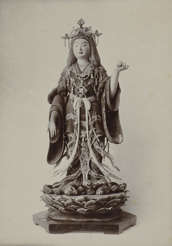 Kichijoten, Joruriji, Kizugawa, Kyoto, Japan